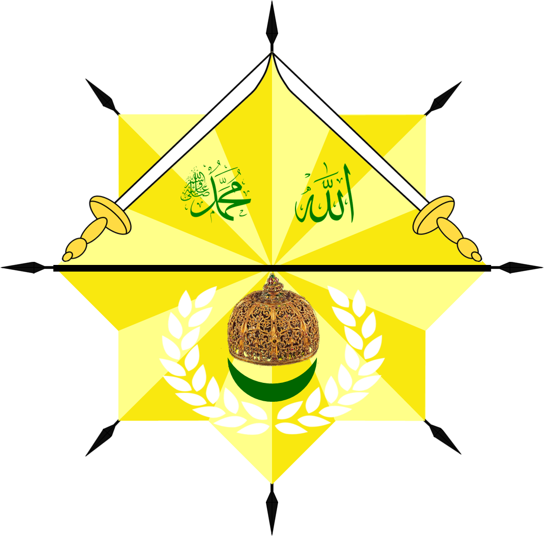 Emblem of Banten Sultanate in 2016. The emblem was used by Sultan Syarif Muhammad ash-Shafiuddin, Sultan of Banten since December, 2016.